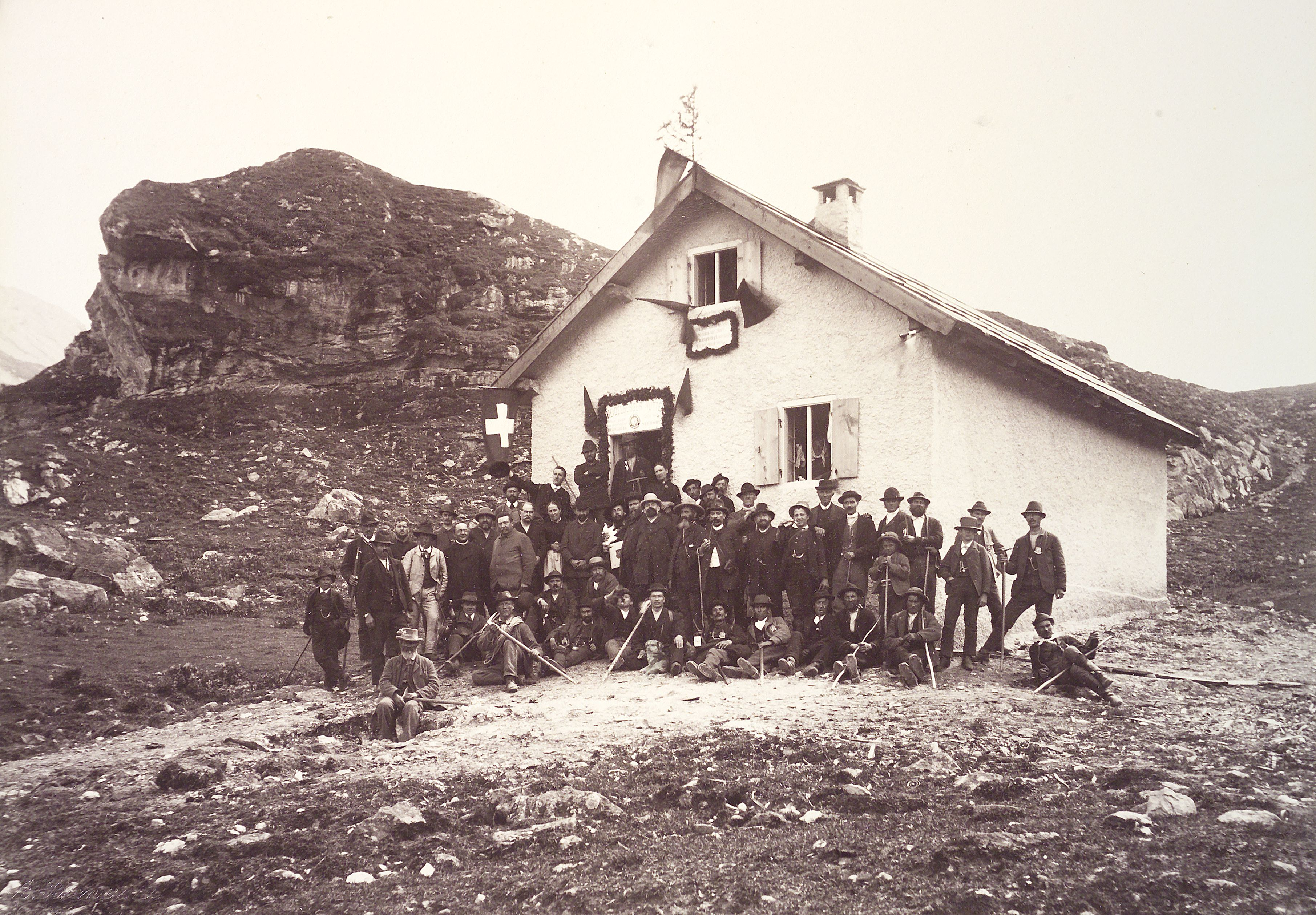 Heidelberger-Hütte im Fimberthal [Fimbatal]. Fotografie : Albumin-Abzug, auf Karton montiert